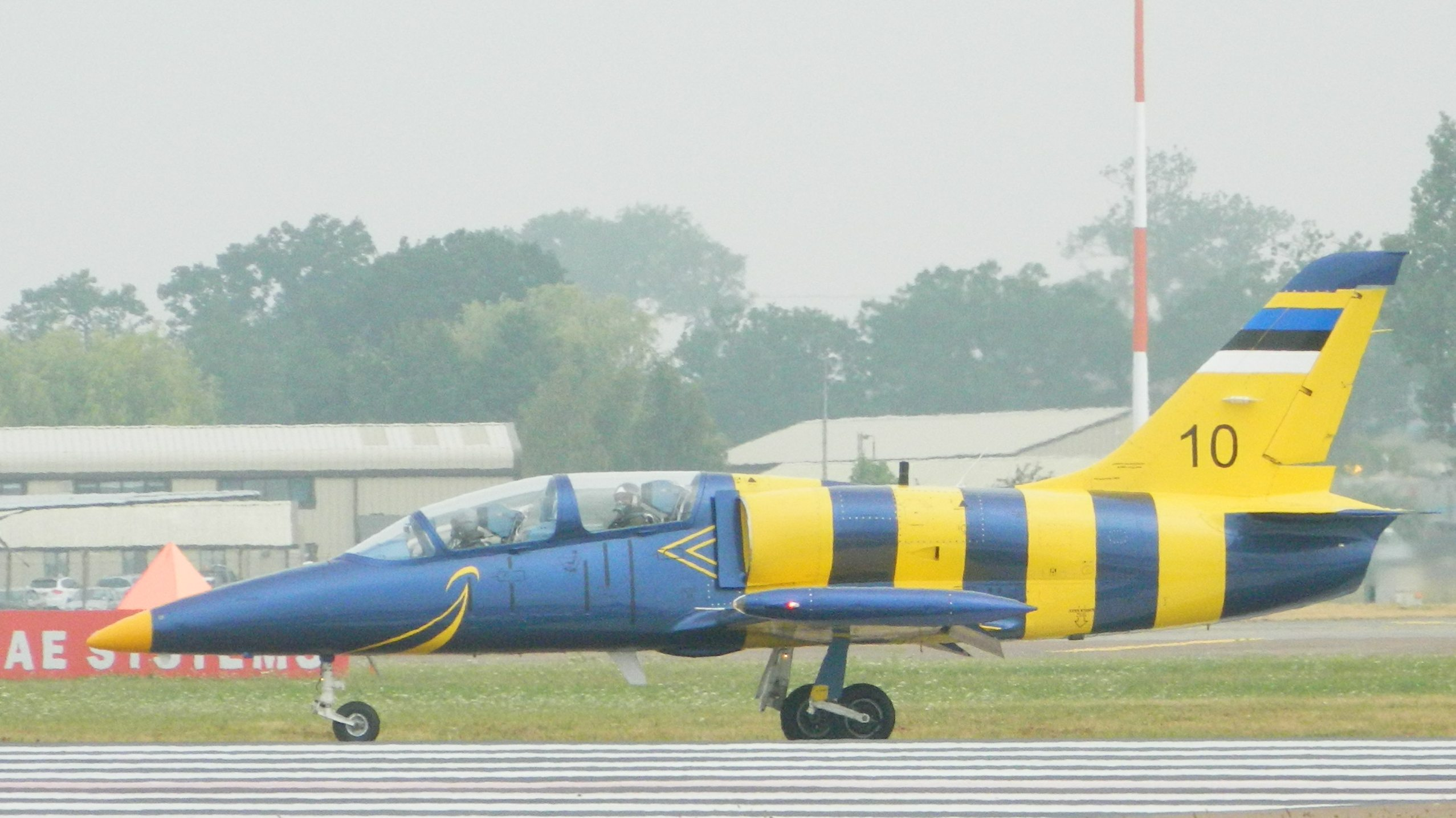 Estonian Air Force Aero L-39C coded "10" prepares to depart from RAF Fairford on Monday 22 July 2013, the Royal International Air Tattoo departure day.